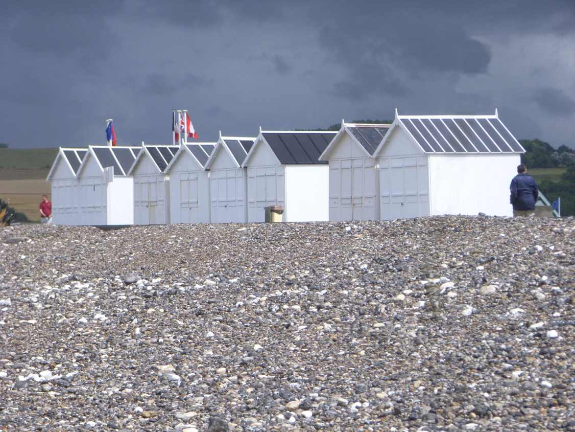 Quiberville Plage (Fr)